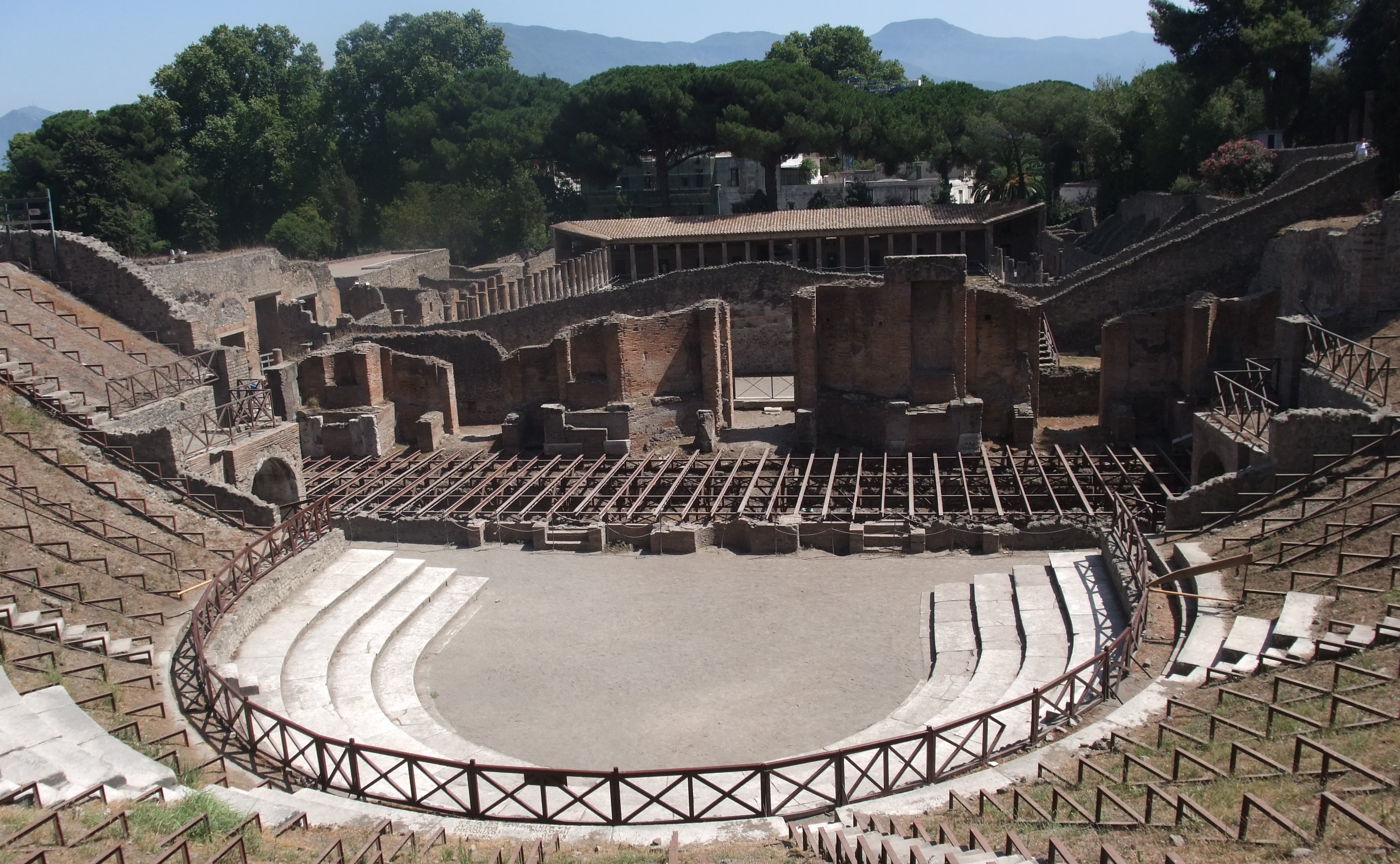 The (Large) Odeon at Pompeii